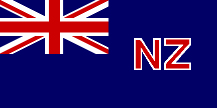 The first flag of New Zealand based on the blue ensign, 1867